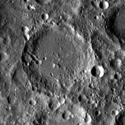 Ostwald lunar crater - LROC image